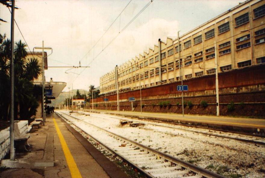 Railway station of Cava de' Tirreni (platforms, 2004)